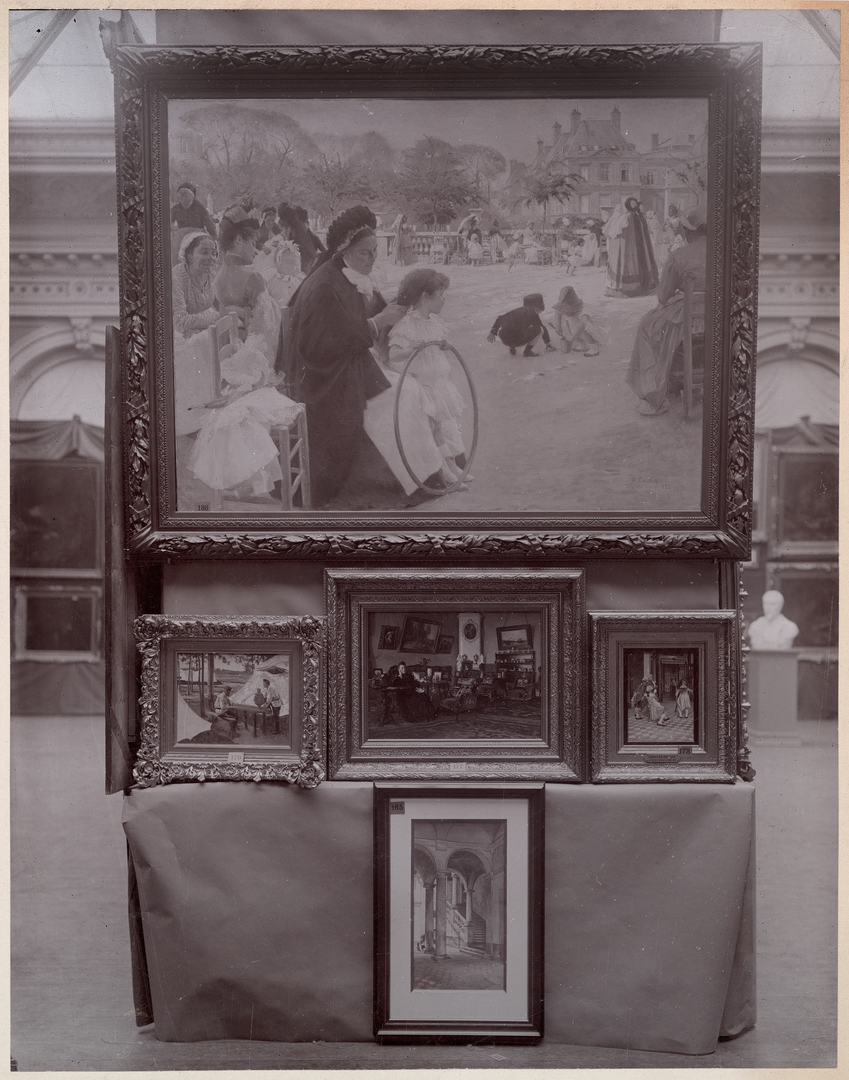 "Finnish Art Society 1846-1896", 50th Anniversary Jubilee Exhibition in Ateneum, presentation and conference hall, paintings by e.g. Albert Edelfelt, Gunnar Berndtson and Jac. Ahrenberg. "Suomen Taideyhdistys 1846-1896", 50-vuotisjuhlanäyttely Ateneumissa, esitelmä- ja kokoussali, maalauksia esim. Albert Edelfelt, Gunnar Berndtson ja Jac. Ahrenberg. Original / originaali: date / ajoitus: 1896 photographer / valokuvaaja: Daniel Nyblin, Helsinki technique / tekniikka: collodion print / kollodiumvedos type / tyyppi: black and white print, cardboard based / mustavalkovedos, kartonkipohjustettu measurements / mitat: 387 mm x 315 mm No. / nro. 40012_810 Archive Collections, Finnish National Gallery / Arkistokokoelmat, Kansallisgalleria